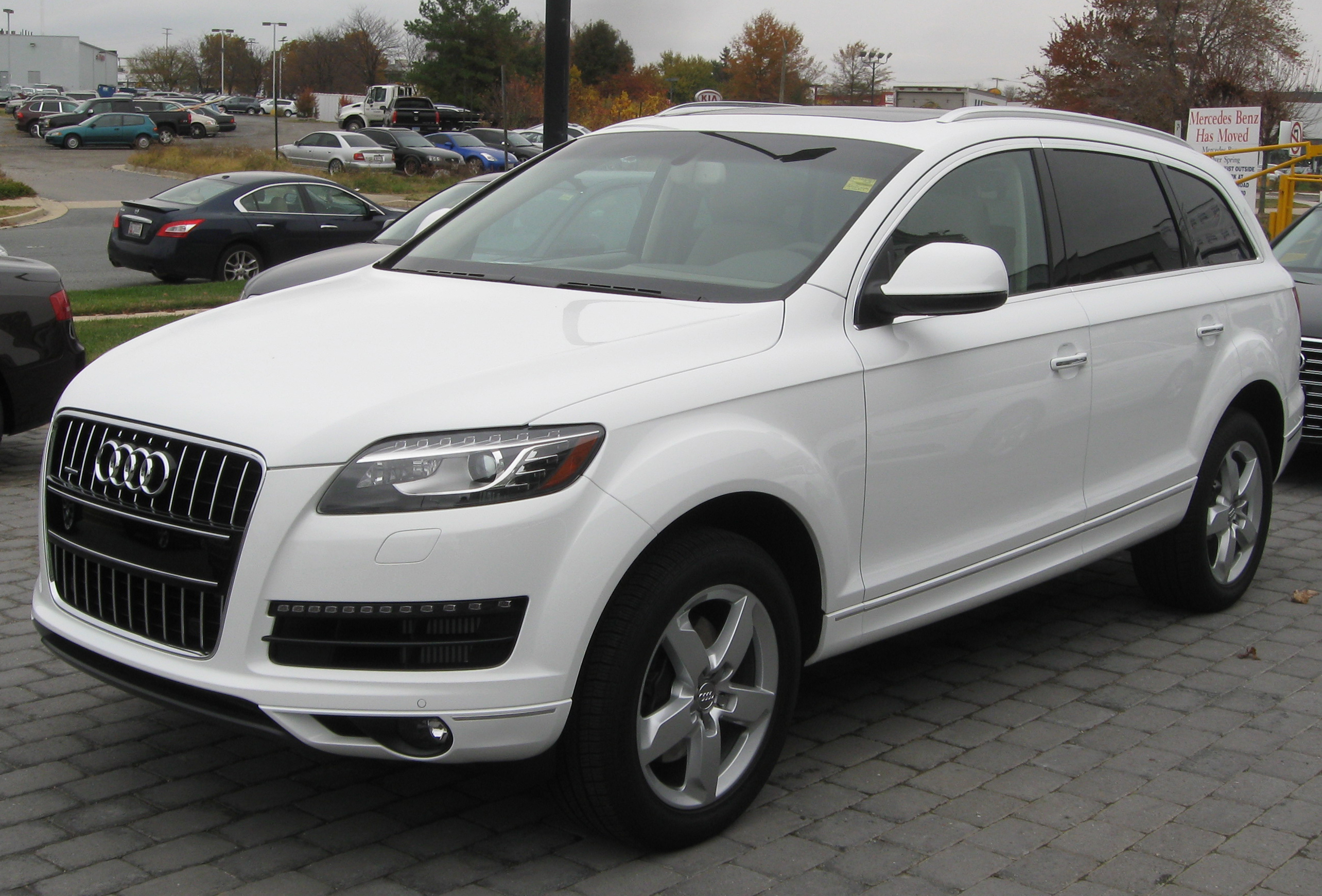 2012 Audi Q7 photographed in Silver Spring, Maryland, USA.